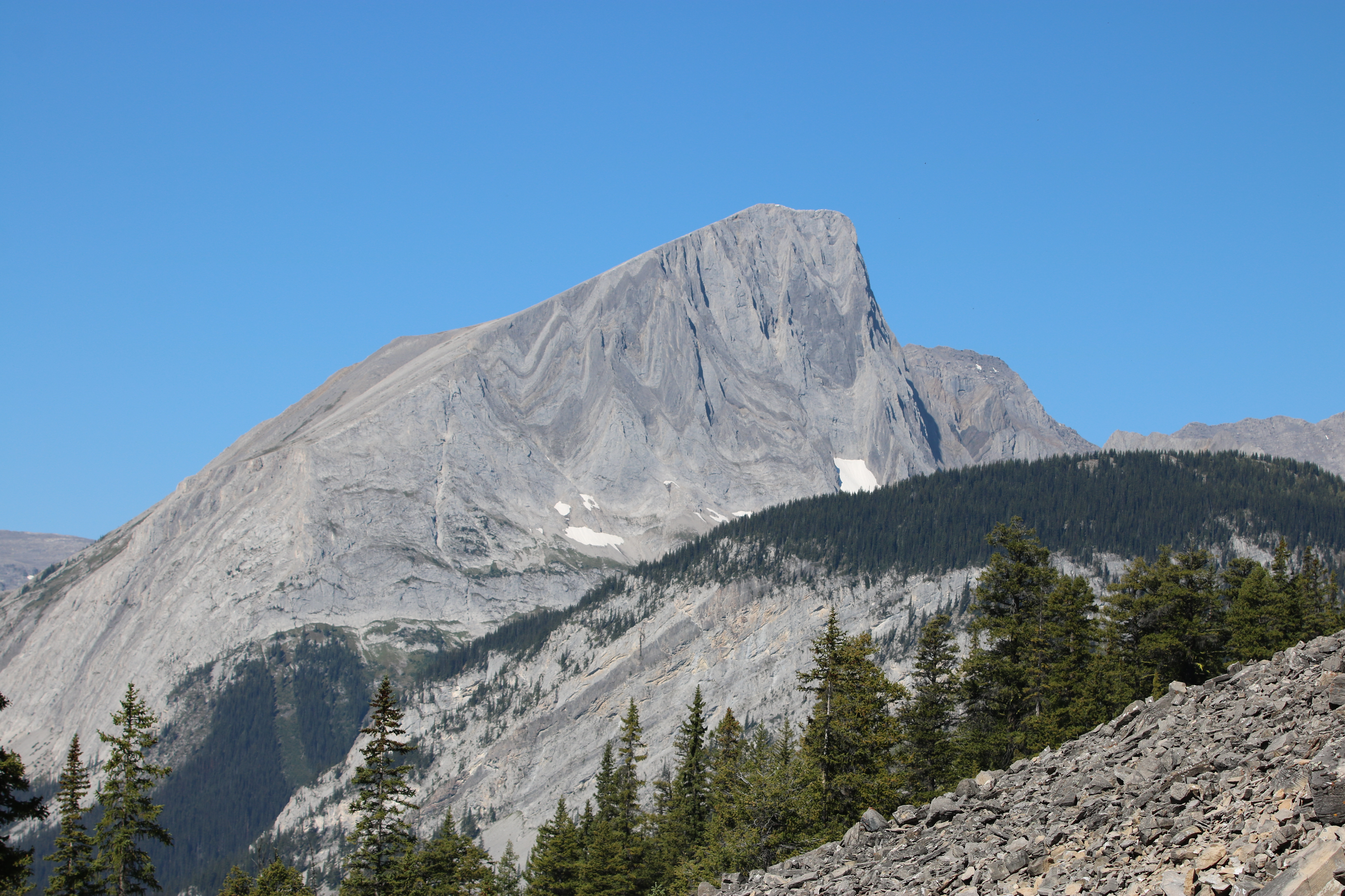 Every time i see the strata in the mountains I always picture them on the bottom of an ocean millions of years ago with fish etc swimming above them, humans are just a blink of an eye on that time scale.